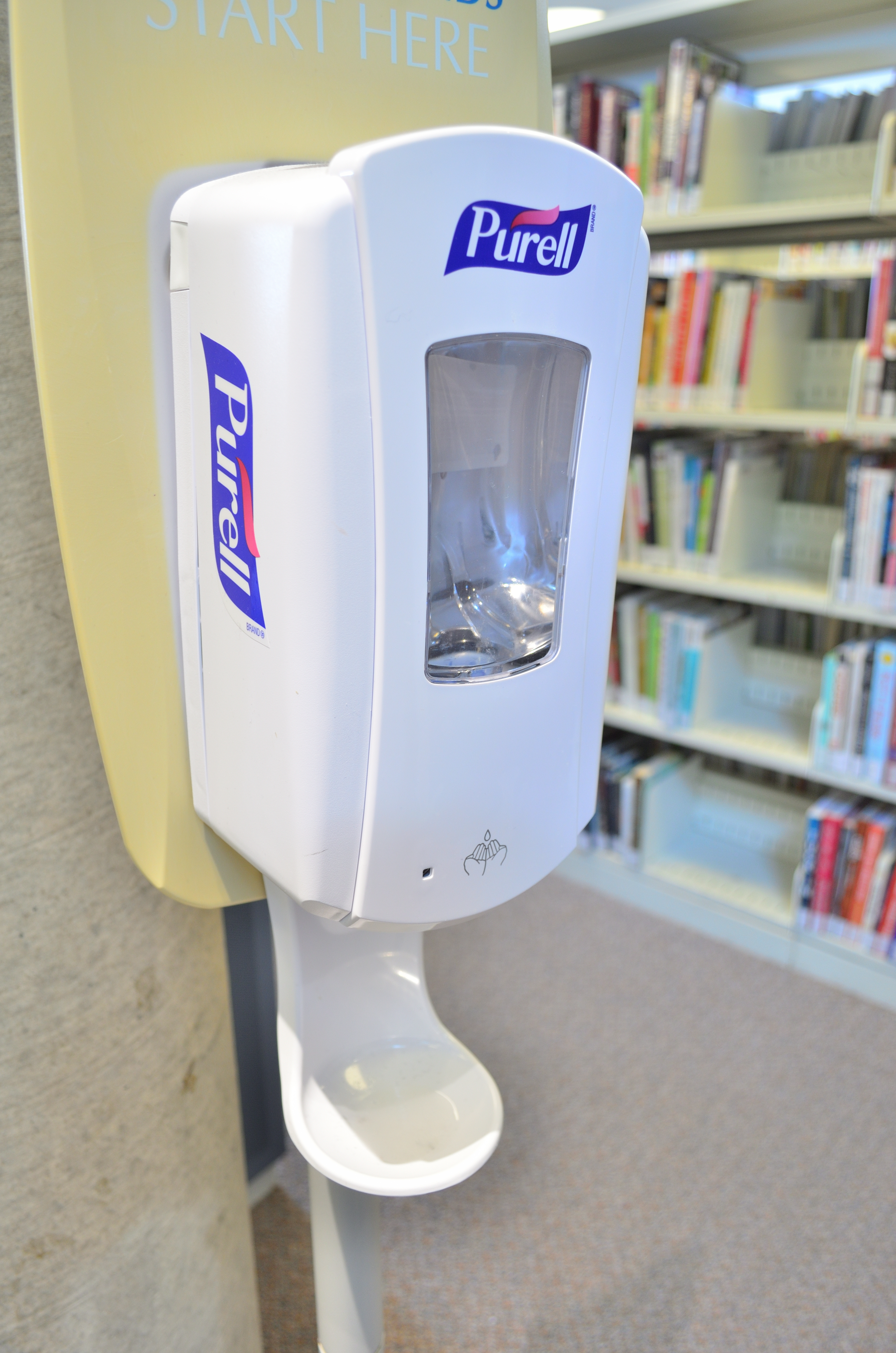 Purell hand sanitizer